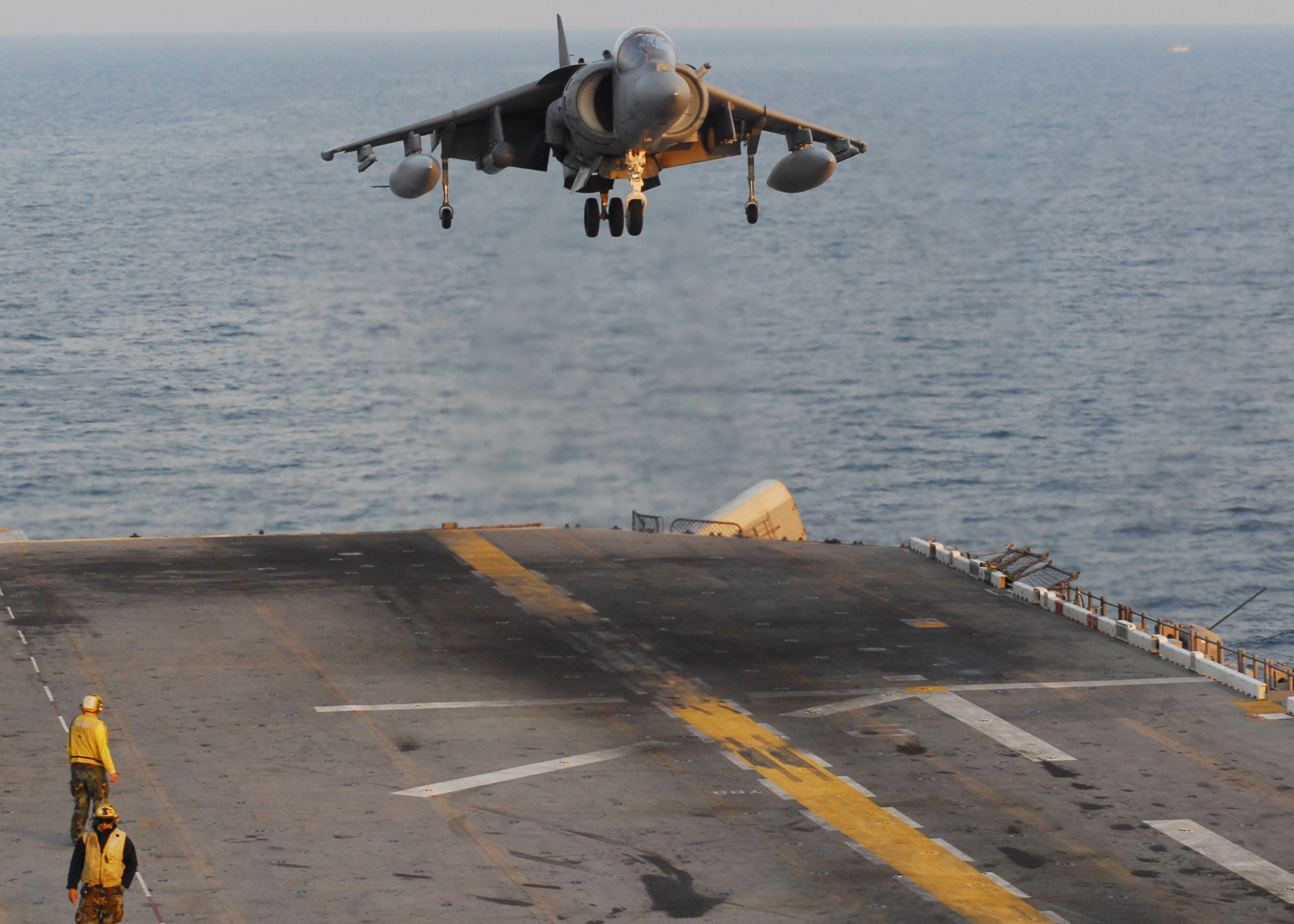 070322-N-4124C-062 PACIFIC OCEAN (March 22, 2007) - An AV-8B Harrier II assigned to Marine Attack Squadron (VMA) 214 prepares to land on the flight deck of USS Essex (LHD 2). The Marine pilots of VMA-214 conducted carrier-landing qualifications aboard Essex in preparation of upcoming operations as part of Reception, Staging, Onward movement and Integration (RSOI) and Foal Eagle 07. The two annual, concurrent exercises will bring together Republic of Korea and United States forces to increase interoperability and joint combat readiness. U.S. Navy photo by Mass Communication Specialist 2nd Class Adam R. Cole (RELEASED)